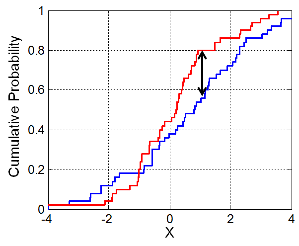 An example of the two-sample Kolmogorov-Smirnov test. Matlab code provided below.